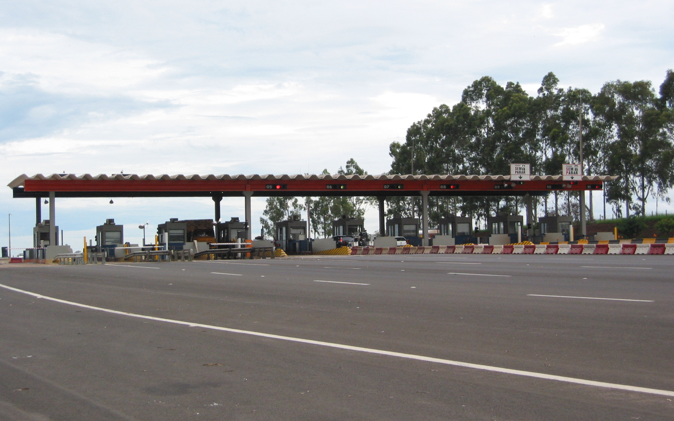 Most of São Paulo State's major highways have become privatized toll roads in recent years. On the good side it mean that unlike the standard state roads or heaven forbid the Brazilian government funded roads the private roads are smooth and well maintained. The down side is that you have to stop at regular intervals to pay varying amounts of money.